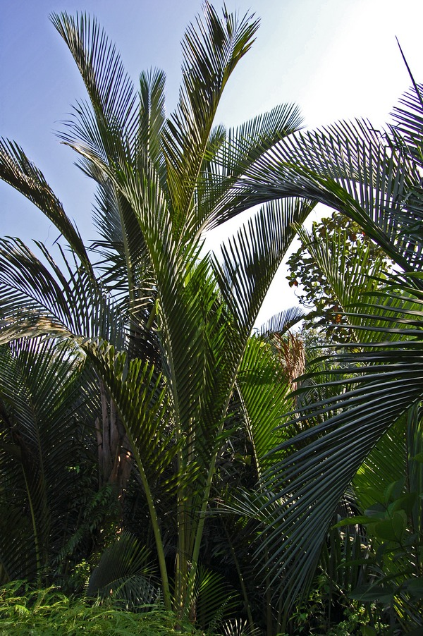 Young Metroxylon sagu. Bogor, West Java, Indonesia